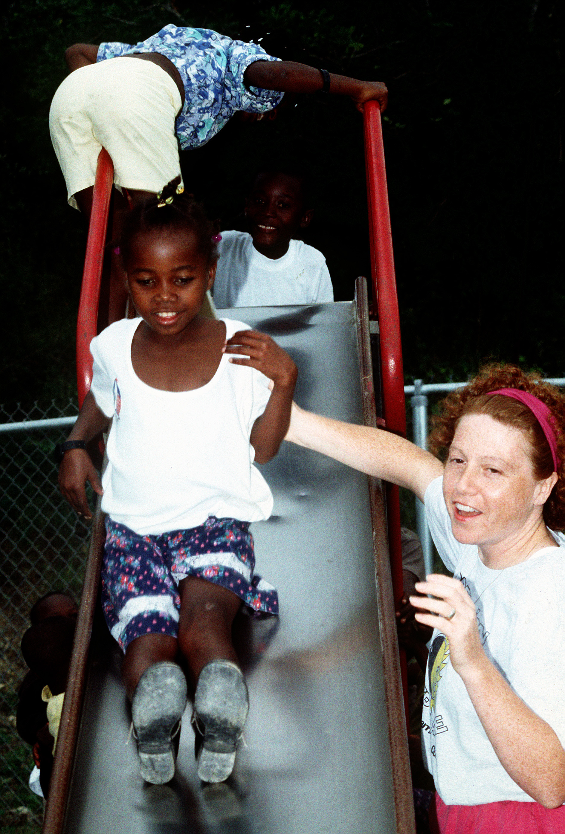 Haitian refugee children get to play in 1994. Original caption: “CHIEF PETTY Officer Michele Hudak, Public Works Department, Iceland Defense Force, Keflavik, Iceland, helps a Haitian migrant down the slide at the elementary school at Naval Base Guantanamo Bay, Cuba. Hudak is a volunteer for the "Love the Children" program. This program offers base and Joint Task Force personnel an opportunity to spend time with the children, 12/30/1994 ”